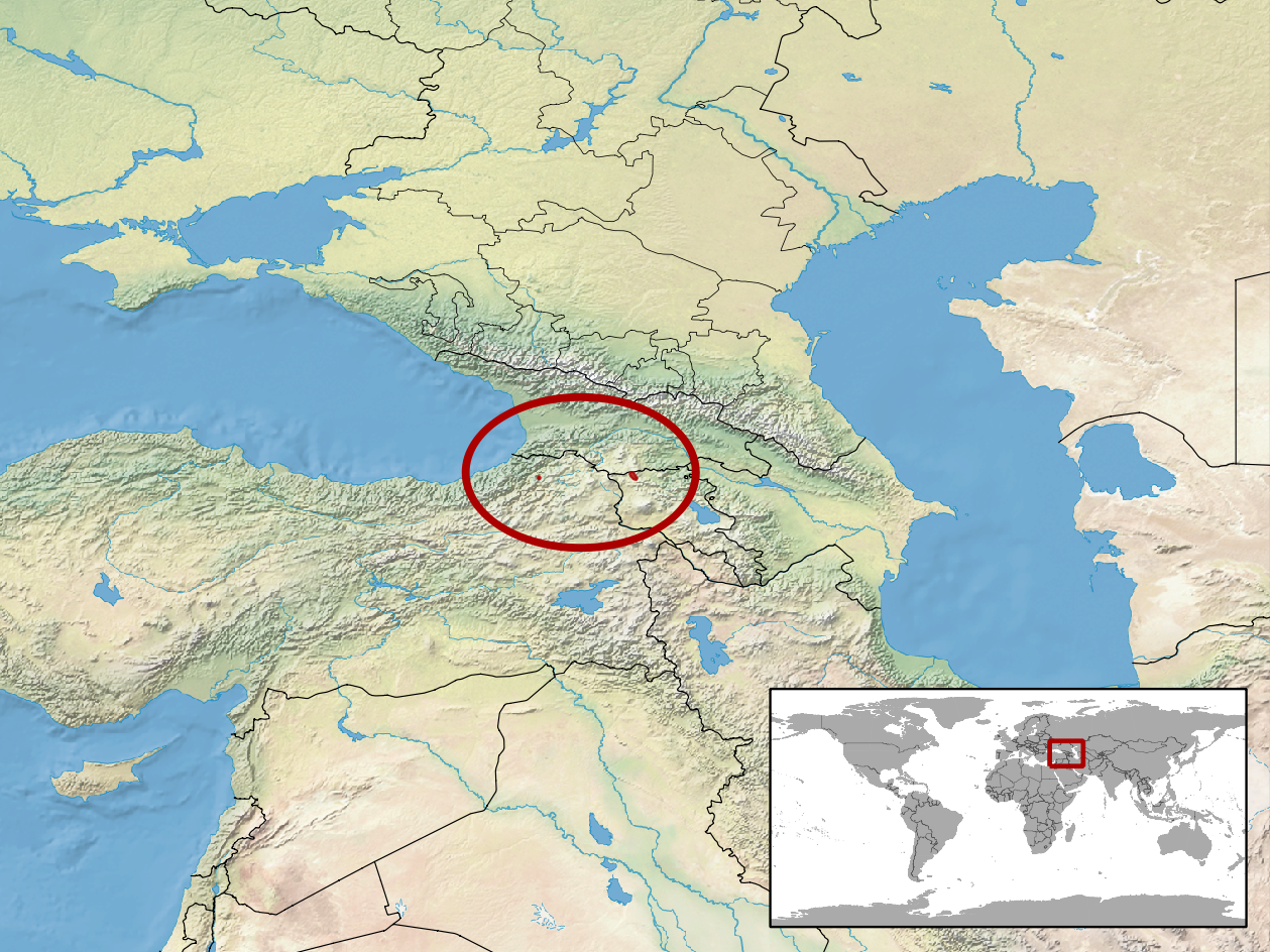 geographic distribution of Vipera darevskii (Native: Armenia (Armenia); Turkey)